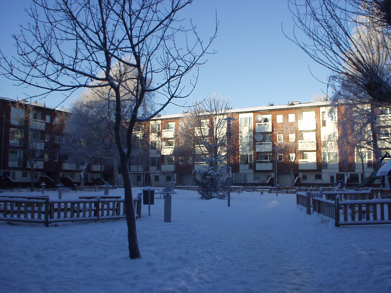 Dimvädersgården 19-34 innergård